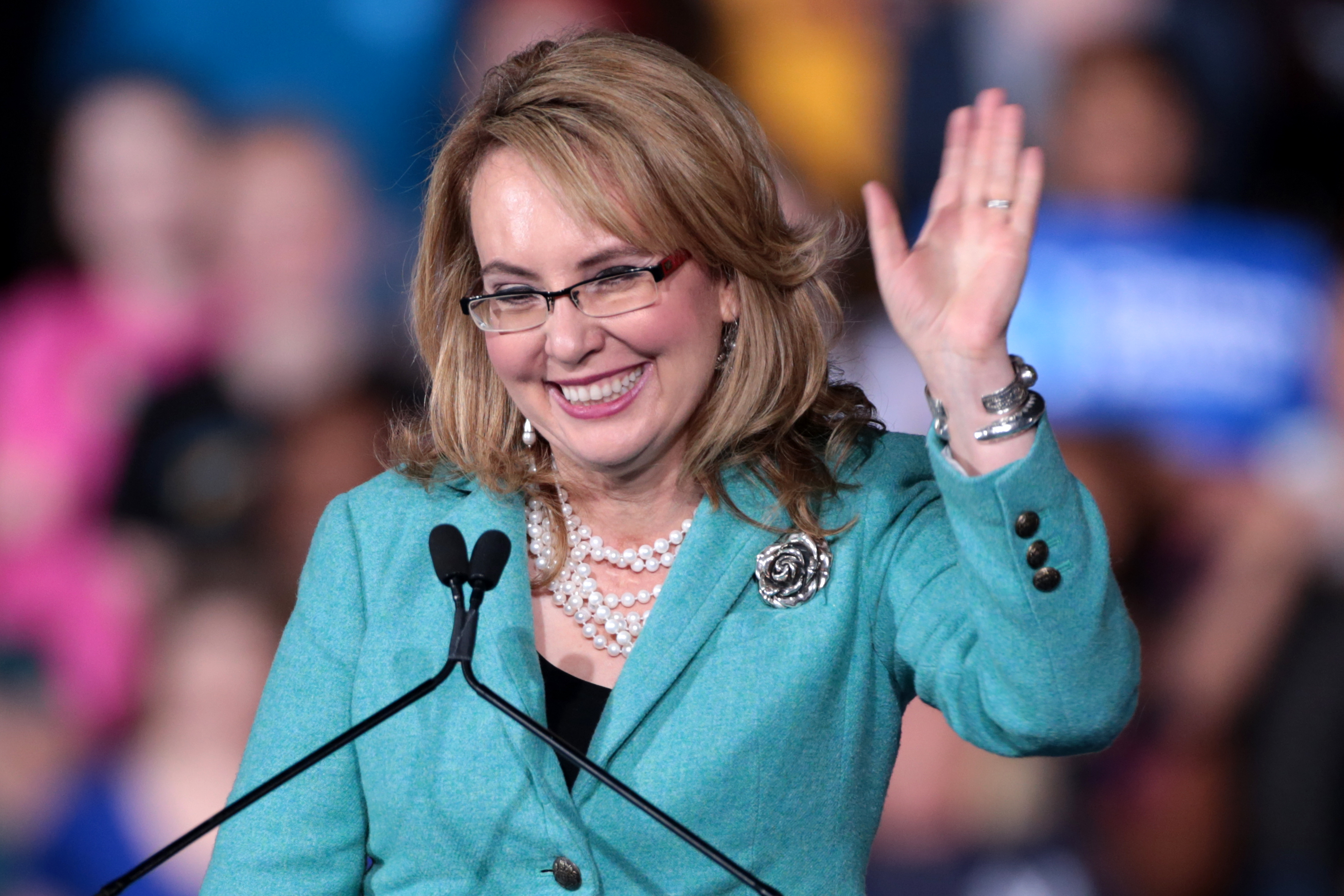 Former U.S. Congresswoman Gabrielle Giffords speaking with supporters of former Secretary of State Hillary Clinton at a campaign rally at the Intramural Fields at Arizona State University in Tempe, Arizona.